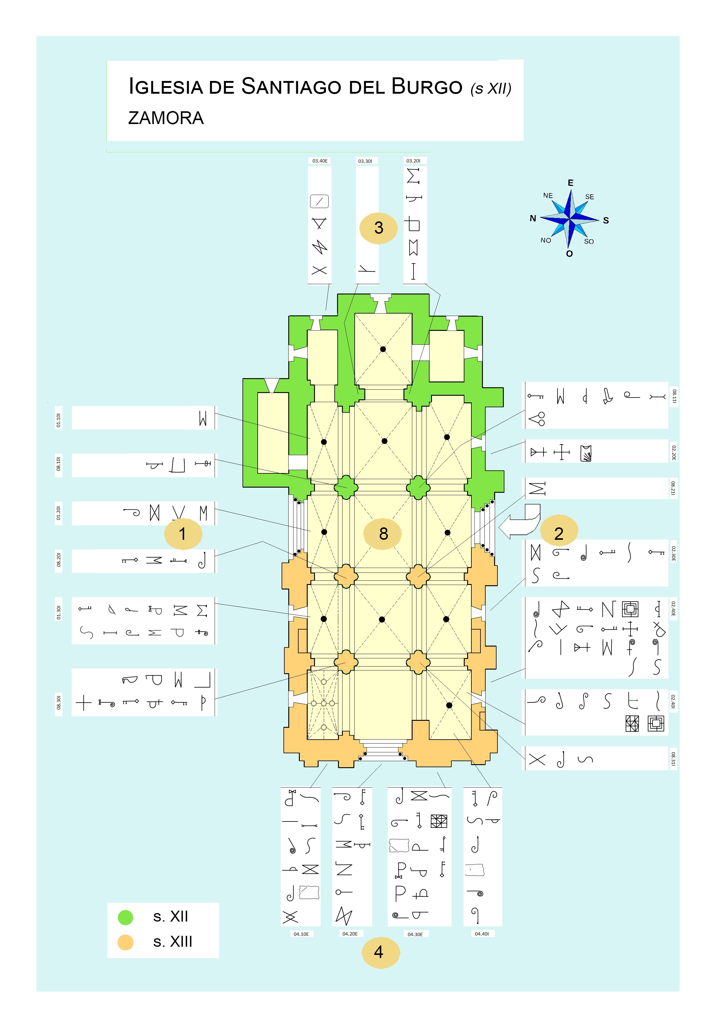 Santiago del Burgo church, ZAMORA, Spain, romanesque s. XII. Plan appro. and stonecutter mark.